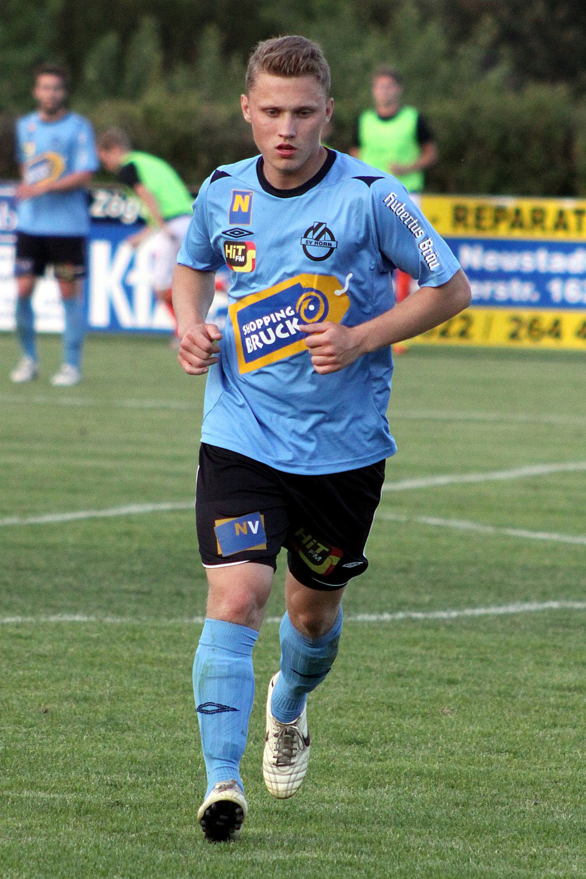 1. SC Sollenau vs. SV Horn at 2012-05-25 in Sollenau 3:1 (3:0). – The photo shows Maciej Sobczyk (SV Horn). Object location47° 54′ 04.4″ N, 16° 14′ 35.78″ E